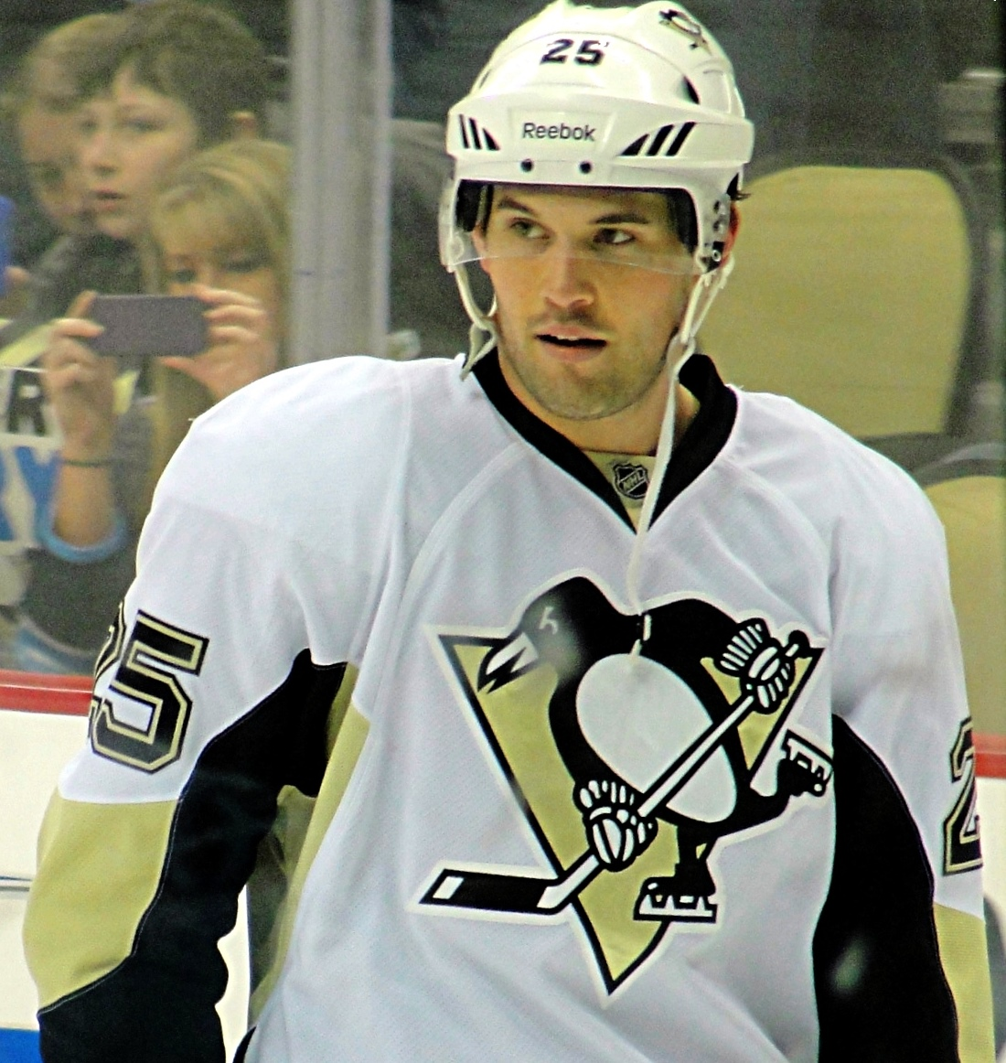 Pittsburgh Penguins forward Eric Tangradi warms up prior to a February 26, 2012 game against the Columbus Blue Jackets at Consol Energy Center in Pittsburgh, PA.